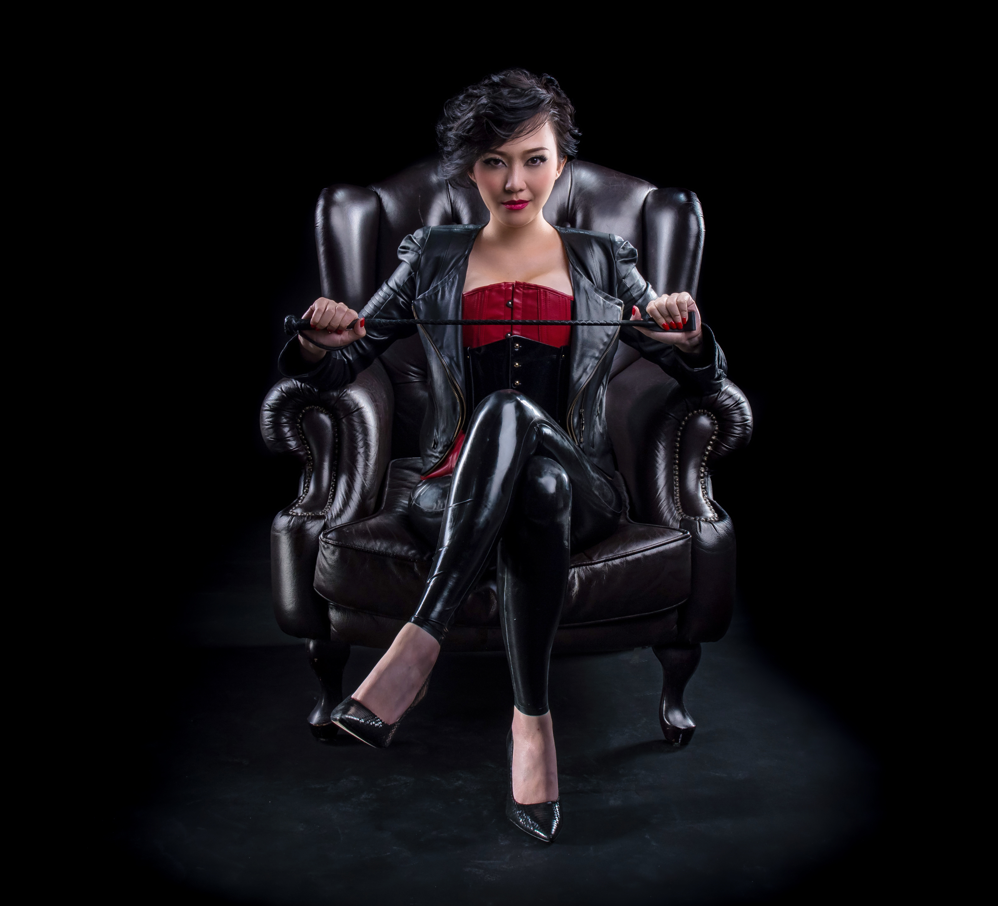 A 2016 photo of Singaporean magician Ning Cai.